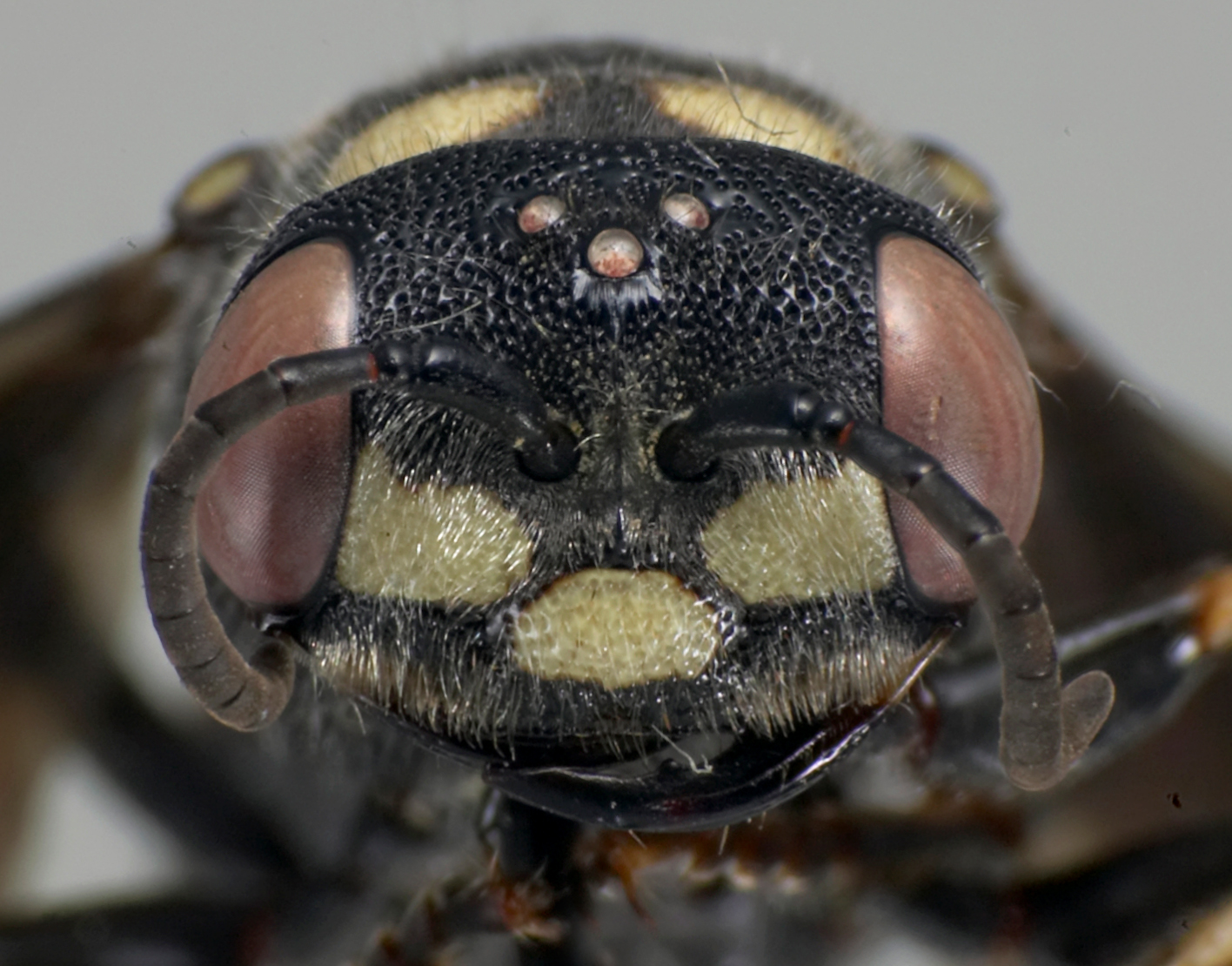 Front view of Cerceris fumipennis